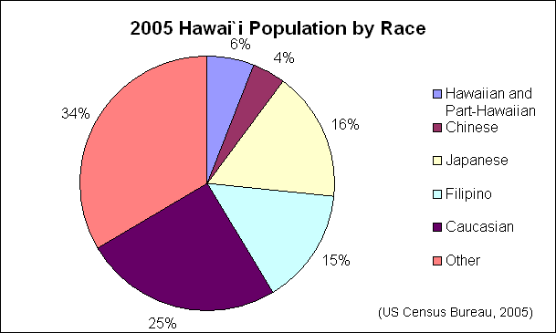 Graph illustrating the population of Hawai`i in 2005 segmented by race